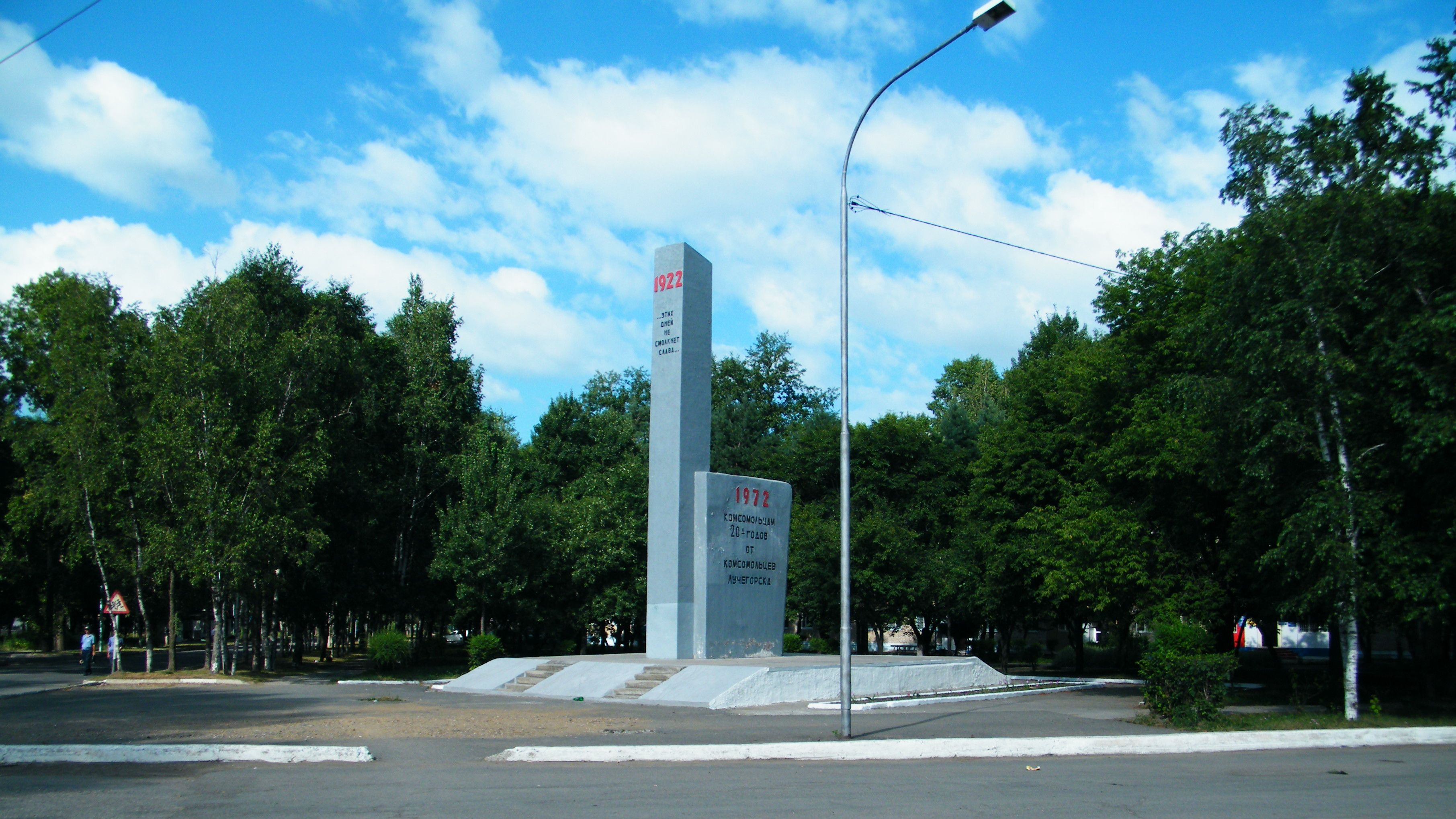 Luchegorsk